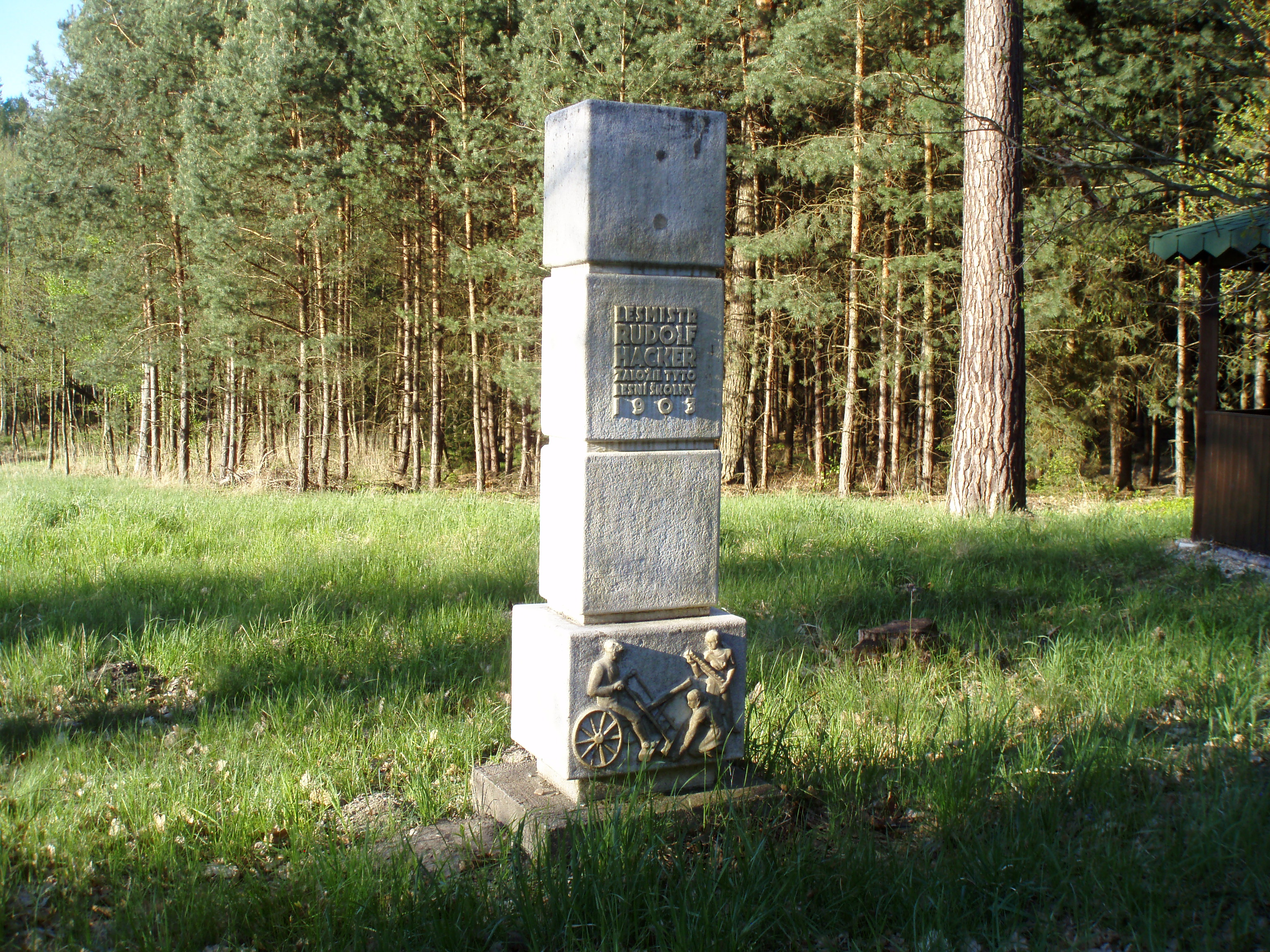 Memorial to Czech forester Rudolf Hacker in Hradec Králové (Czechia)